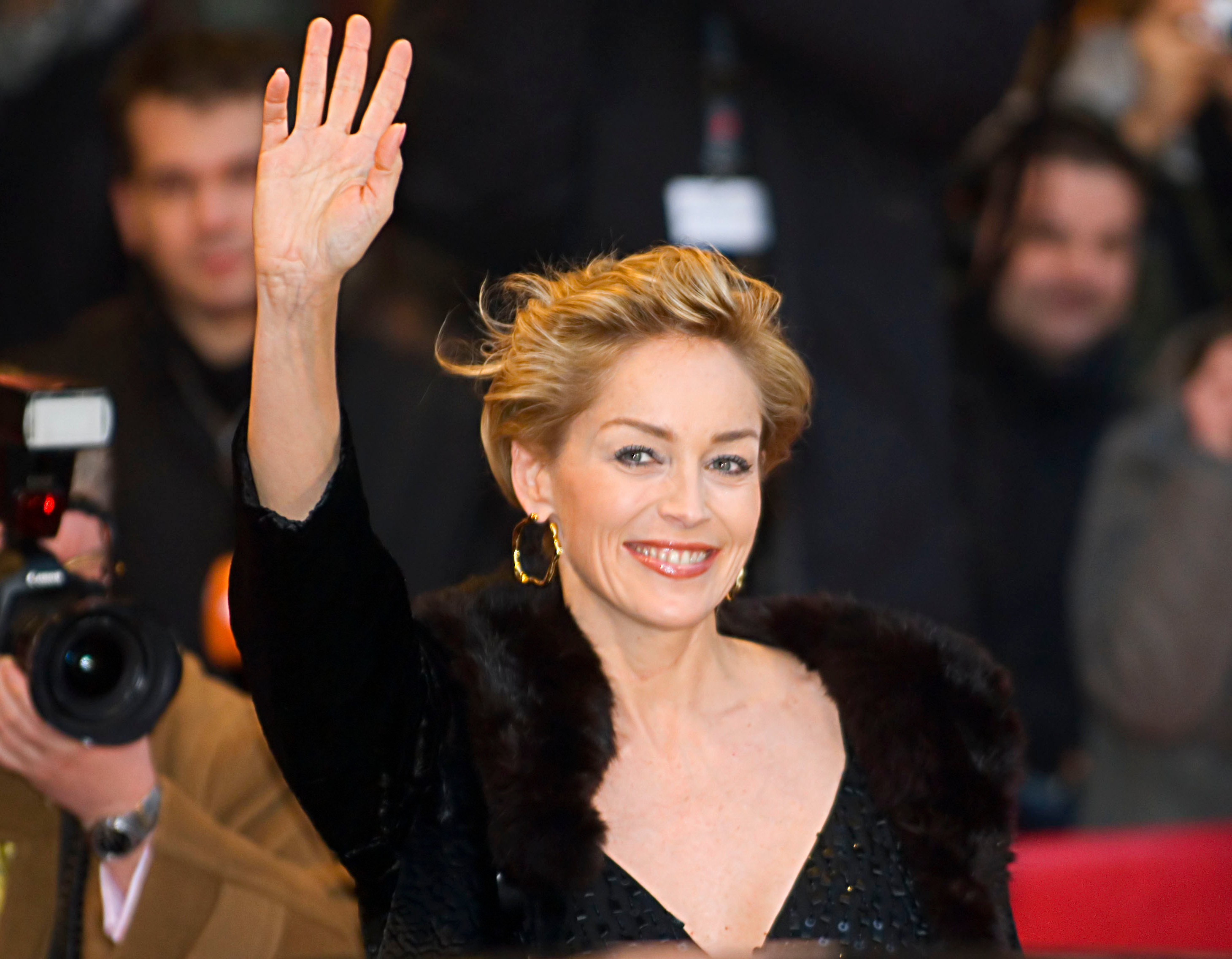 Sharon Stone at the Premiere of "When a man falls in the forest" at the Berlinale Palast, Marlene-Dietrich-Platz, Berlin